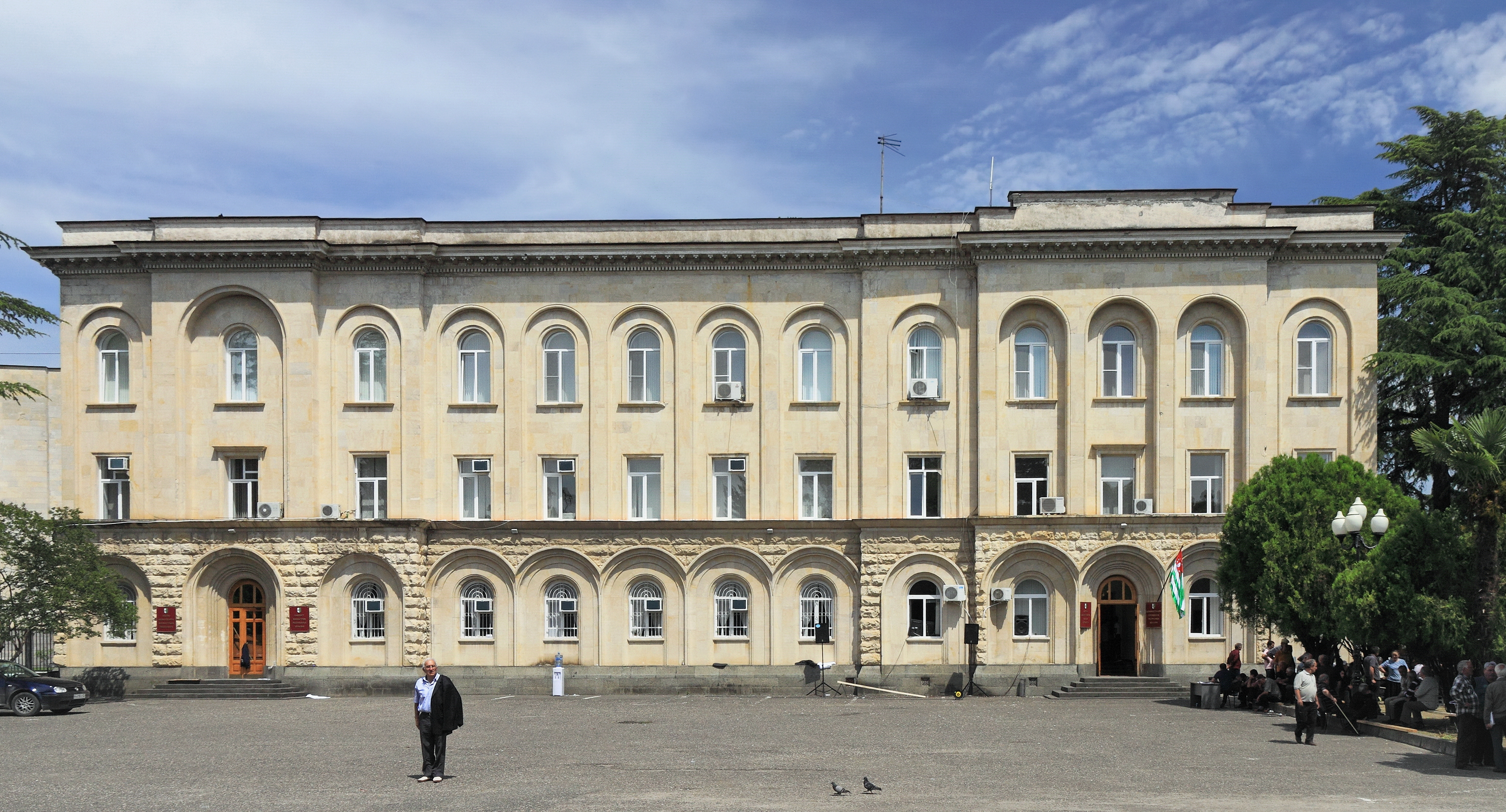 The seat of government and the President of the Republic of Abkhazia. Sukhumi, Abkhazia.